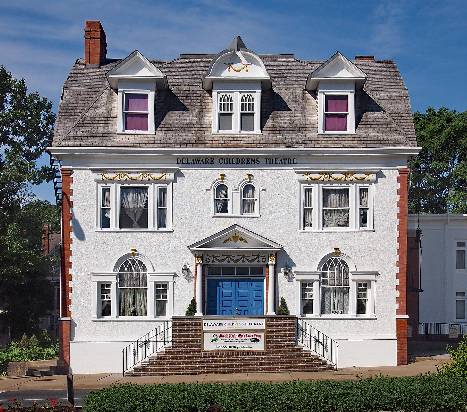 Delaware Children's Theatre (formerly the New Century Club), 1014 Delaware Ave, Wilmington, Delaware, USA. Viewed from the northeast.